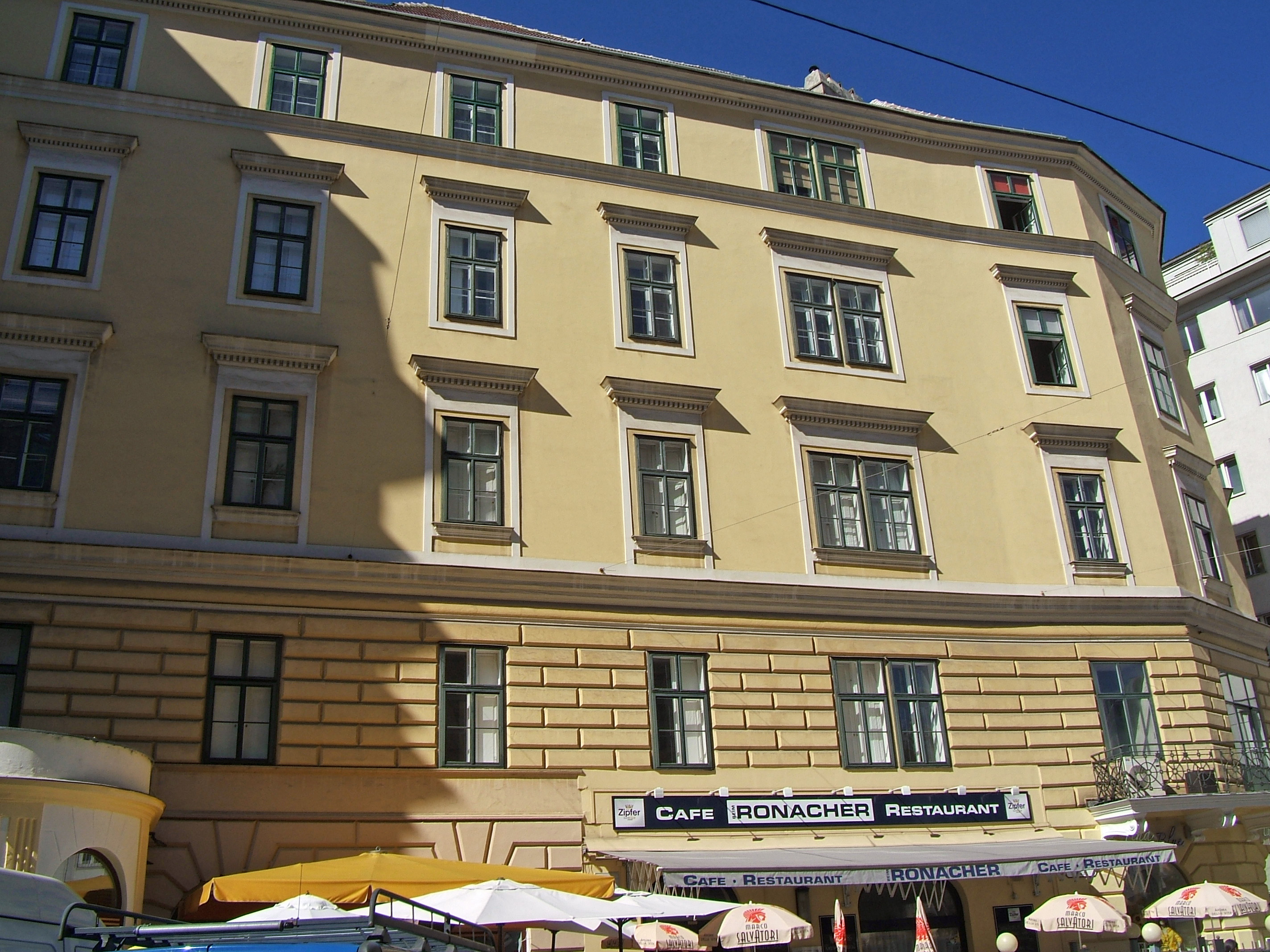 Tenement in Vienna 1st district, Seilerstätte 14